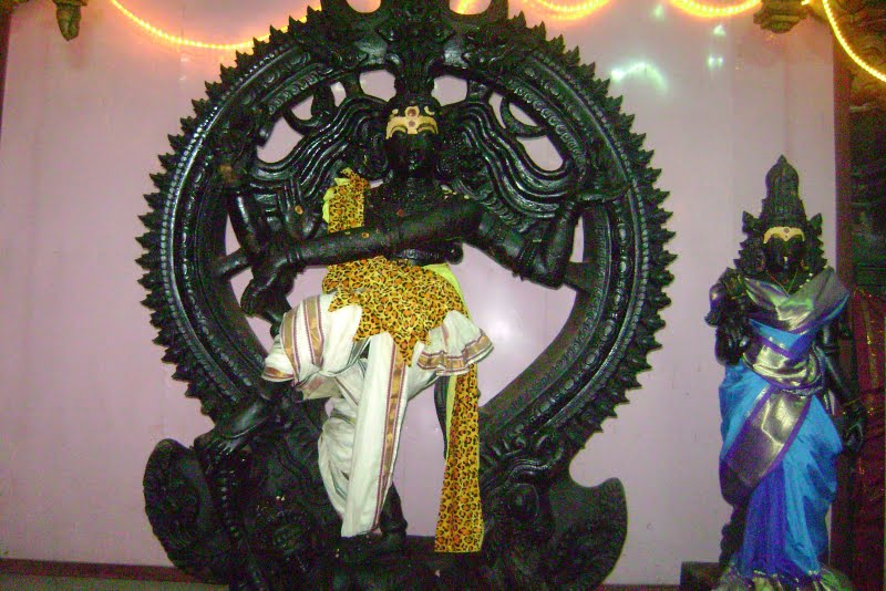 Lord Natraj with Sivakami at 1000 Pillar Hall in Meenakshi Sundareswarar Temple, Madurai, Tamilnadu, India